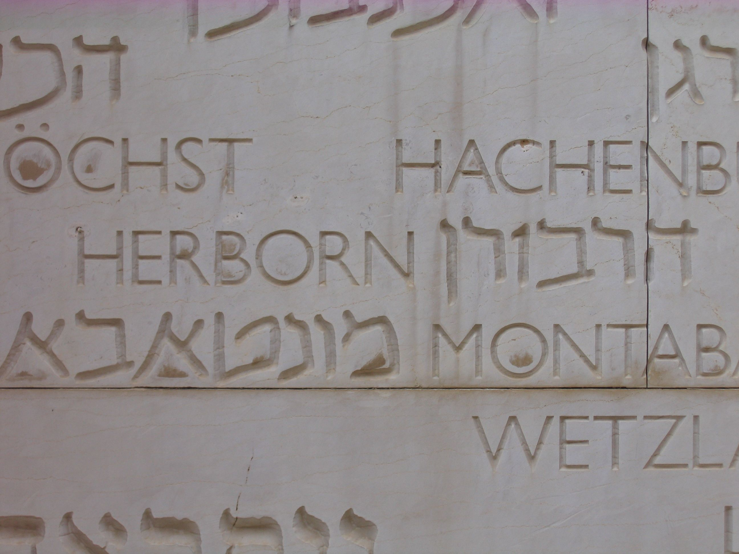 Valley of the Communities, Yad Vashem: Inscription for the community of Herborn